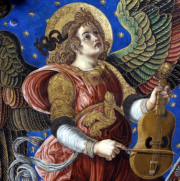 An angel with a vielle. Detail of the dome of the main altar of the Cathedral of Valencia. A fresco by Paolo de San Leocadio and Francesco Pagano, 1474.